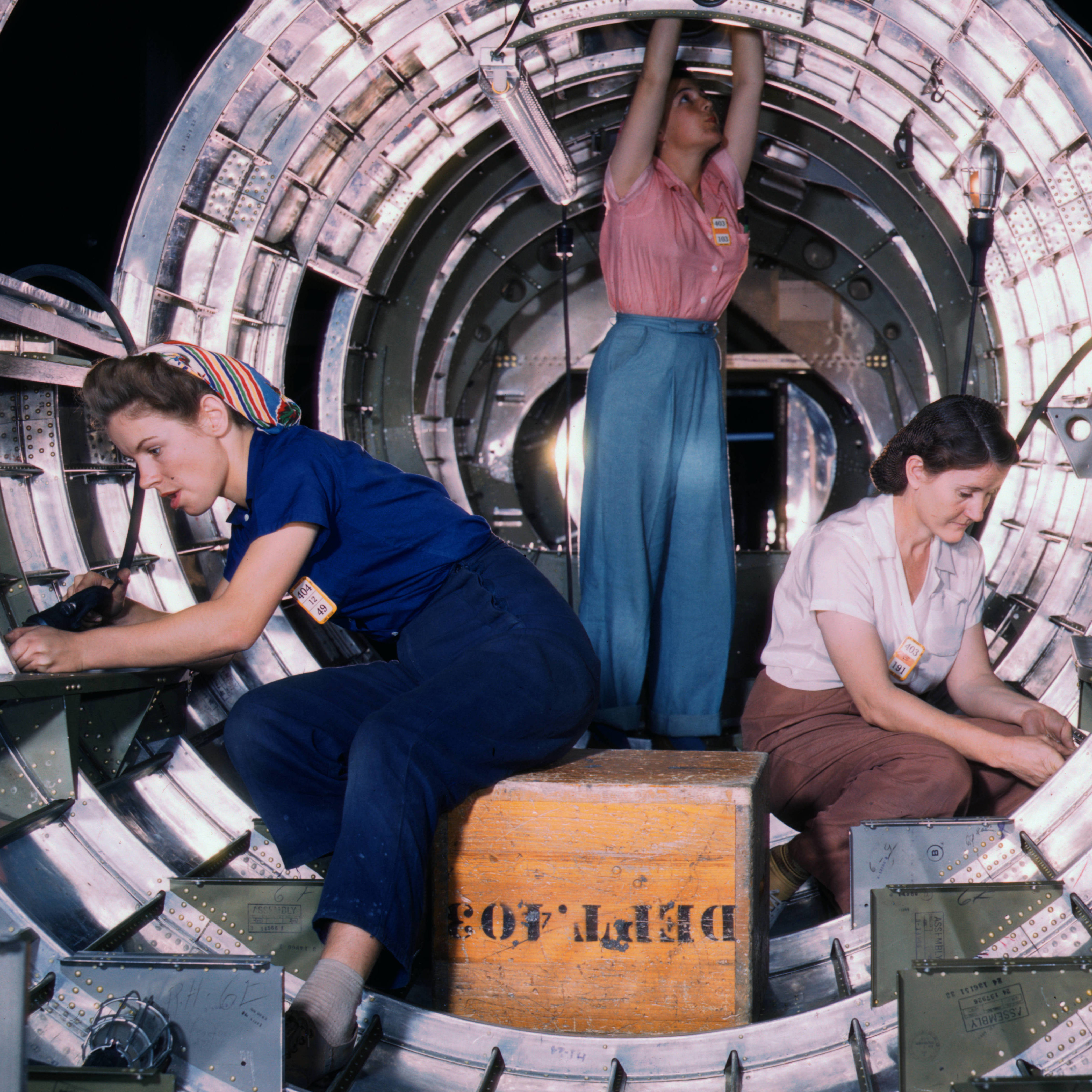 Women workers install fixtures and assemblies to a tail fuselage section of a B-17 bomber at the Douglas Aircraft Company plant, Long Beach, Calif. Better known as the "Flying Fortress," the B-17F is a later model of the B-17, which distinguished itself in action in the south Pacific, Germany and elsewhere. It is a long range, high altitude, heavy bomber, with a crew of seven to nine men, and with armament sufficient to defend itself on daylight missions.